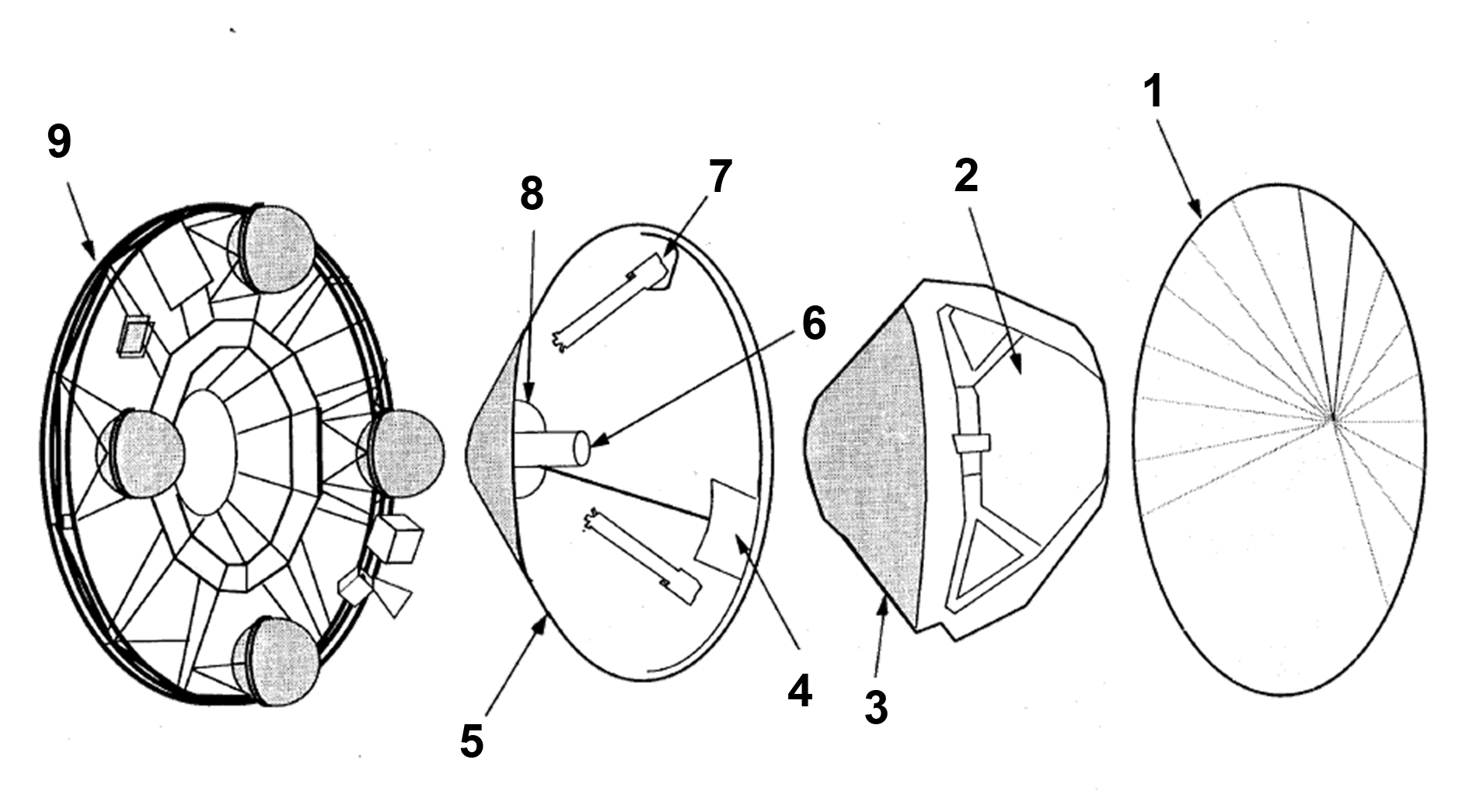 Mars Pathfinder flight system